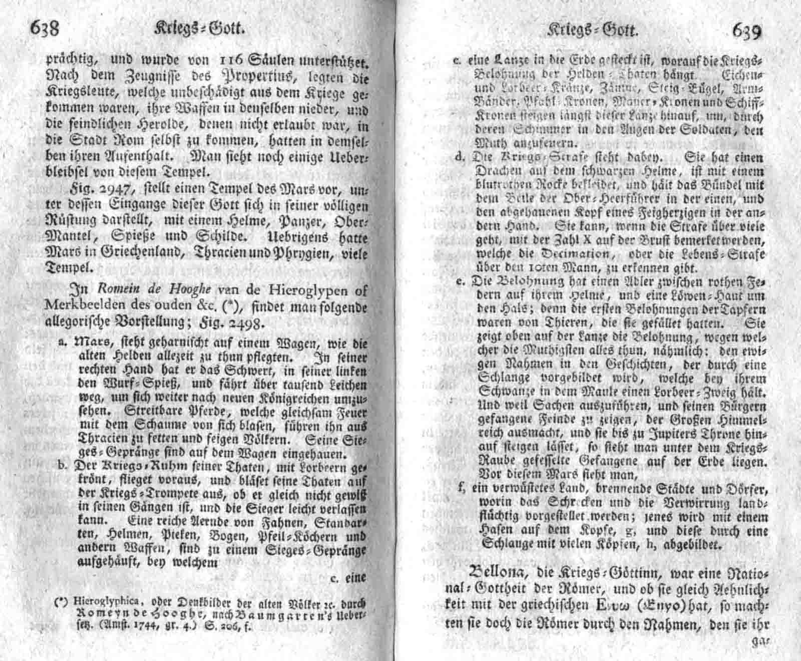 Sample pages from german encyclopedia Oeconomische Encyclopädie by Johann Georg Krünitz. This 242-volumes-encyclopedia was published 1773-1858. Sample is from vol. 50 (1790), pp638-639.